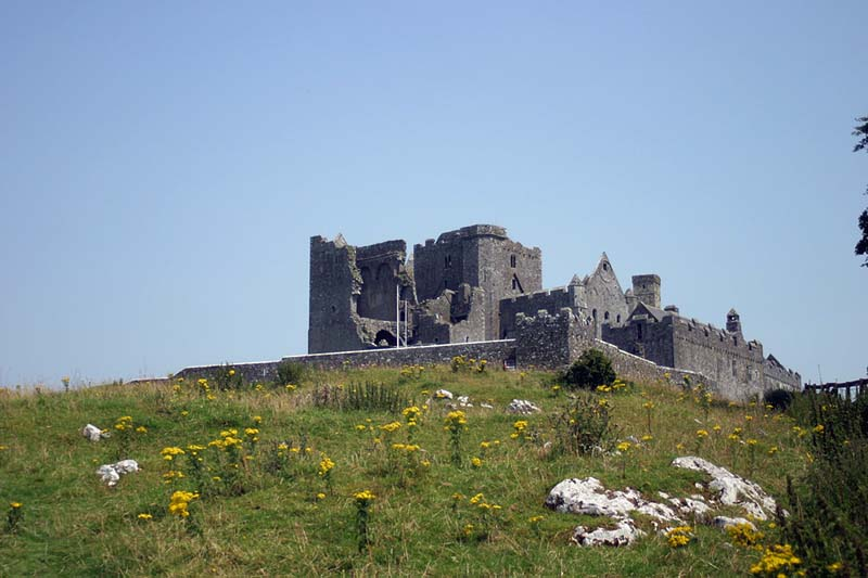 Rock of Cashel